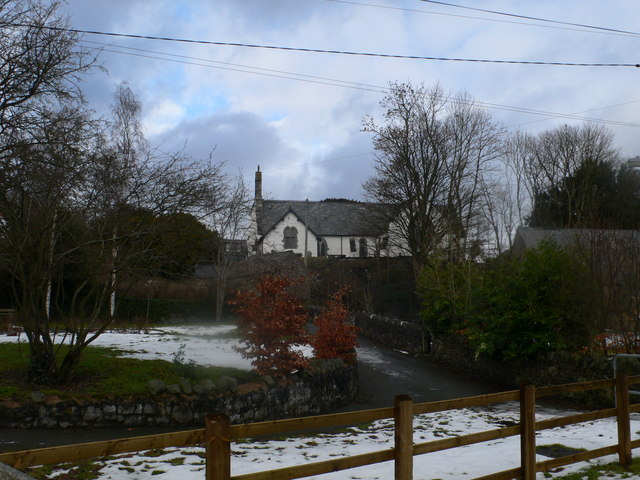 St Digian's Church, Llangernyw